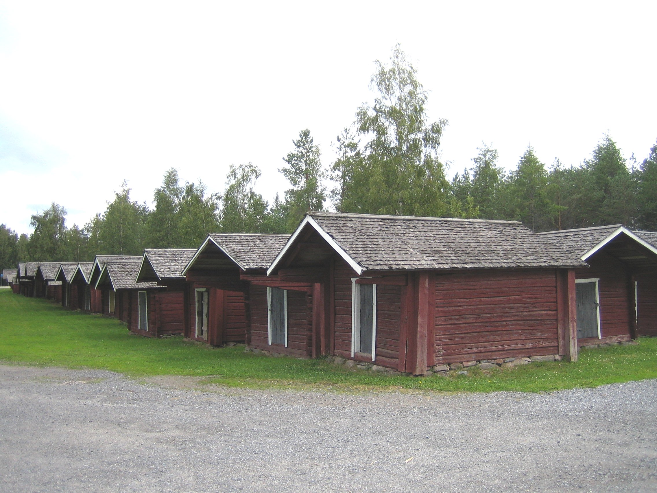 There are over 100 old small stables in front of the Närpes (Närpiö) church.